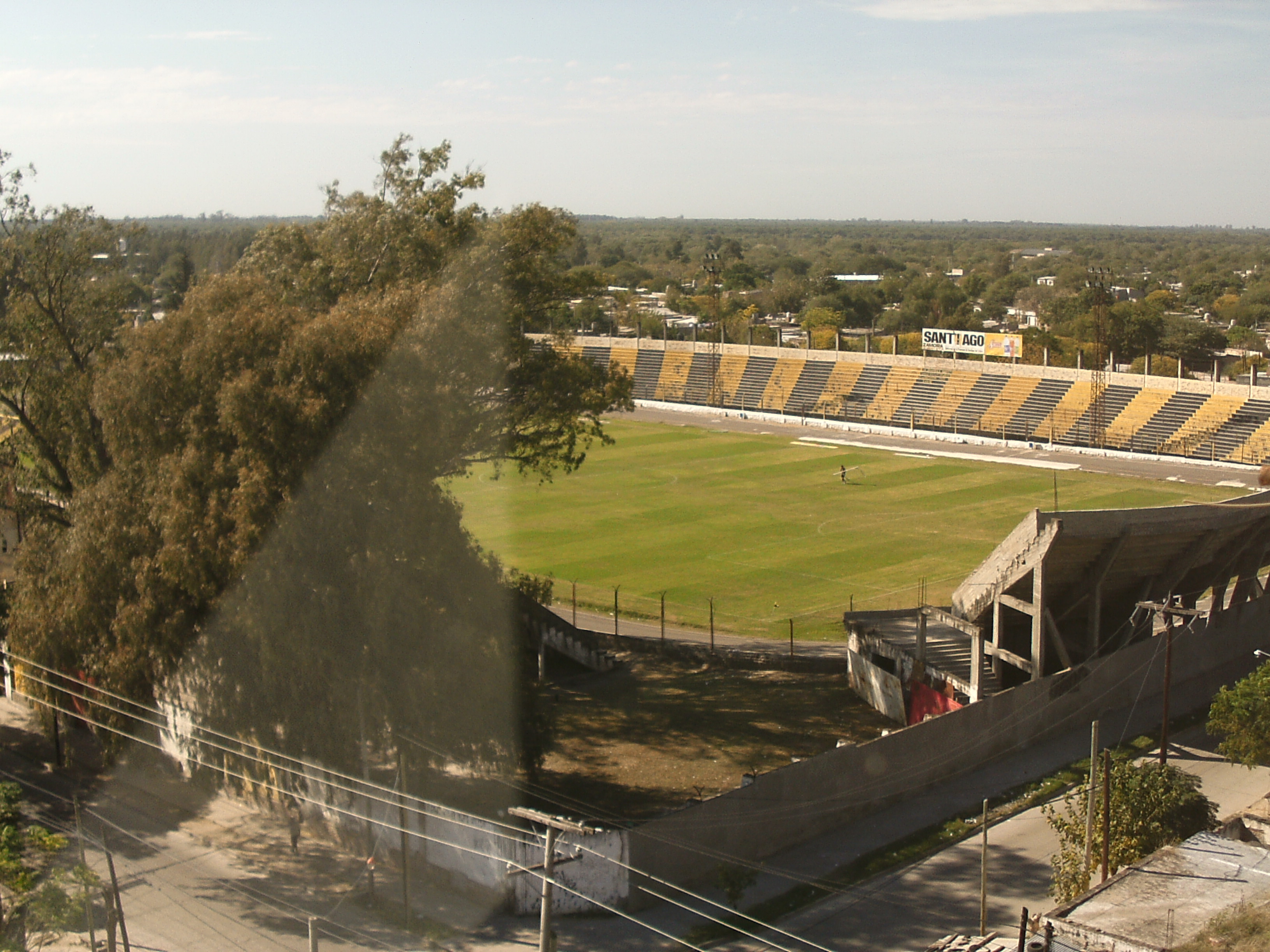 A view of the CA Mitre stadium - Doctores Castiglione - from the corner of 3 de Febrero and Francisca Jaques, Santiago del Estero